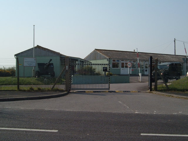 Browndown Training Camp, Stokes Bay, Gosport This camp was the location of several of the "Bad Lads Army" TV series. It is situated at the junction of Browndown Road and Privett Road.